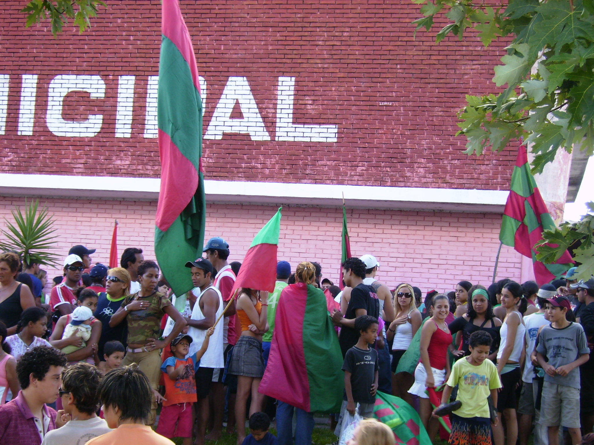 supporters of the sambaschool ´Barrio Rampla´, Artigas, Uruguay